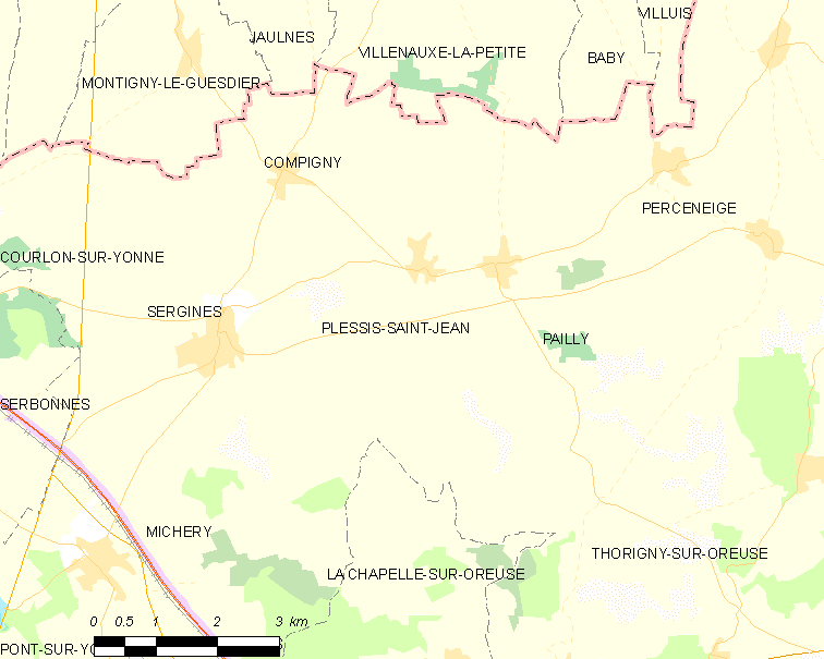 Map of French municipality Plessis-Saint-Jean